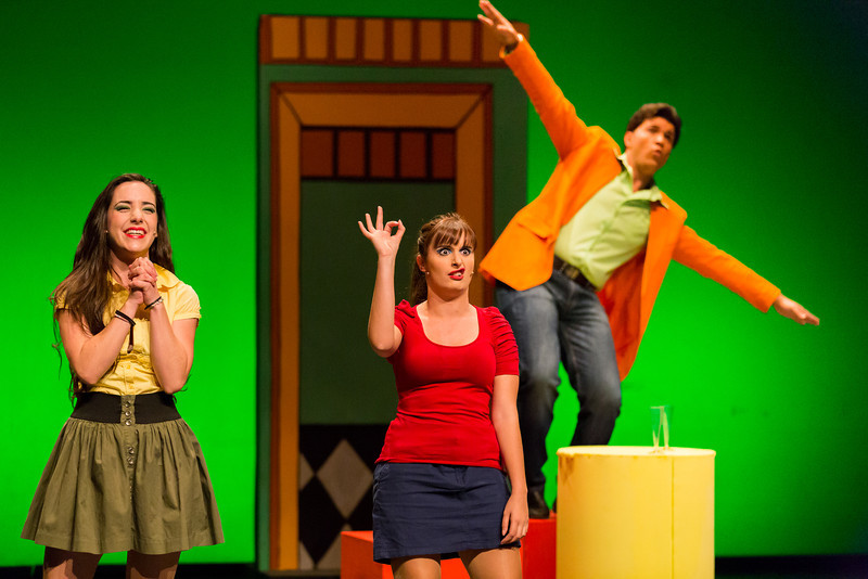 Representación musical en la Esad de Málaga.